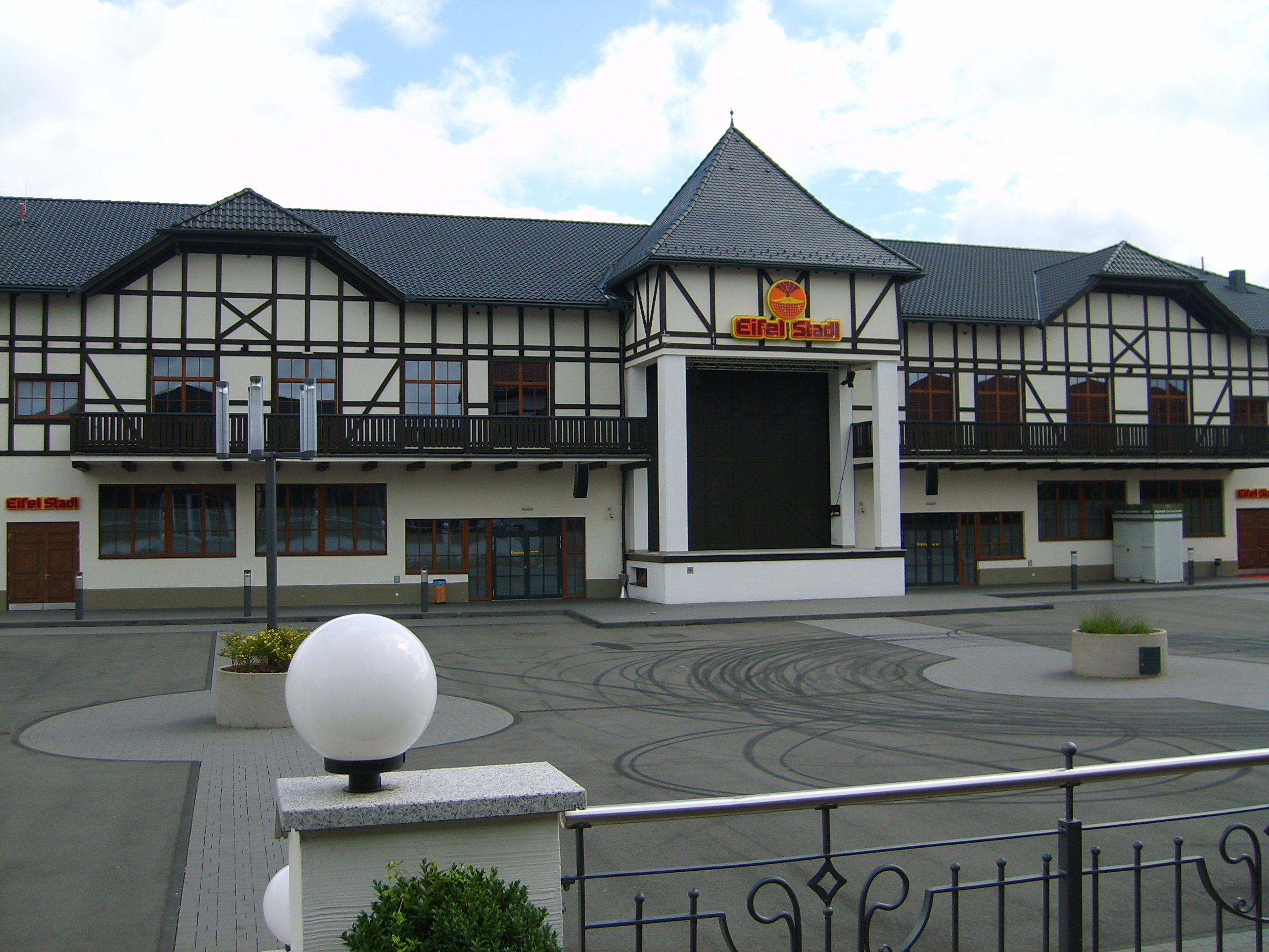 Front of the Eifel Stadl